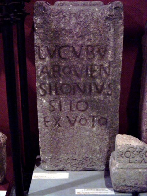 Roman votive incription to local Galician gods (Museo Aqueolóxico de San Antón, A Coruña): LUCOUBU ARQUIEN(O) SILONIUS SILO EX VOTO